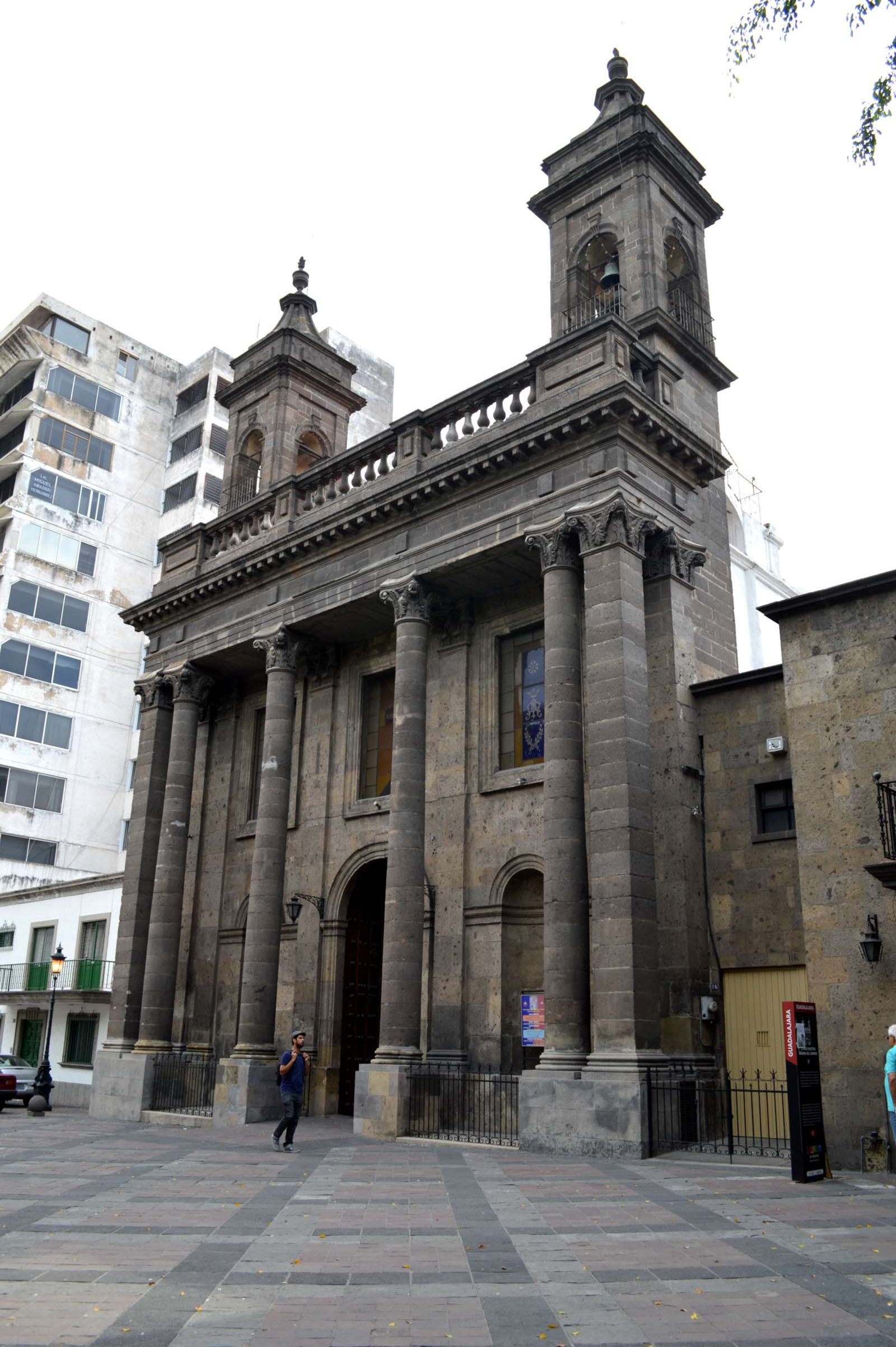 Nuestra Señora del Carmen Church on Avenida Juarez, Guadalajara Mexico